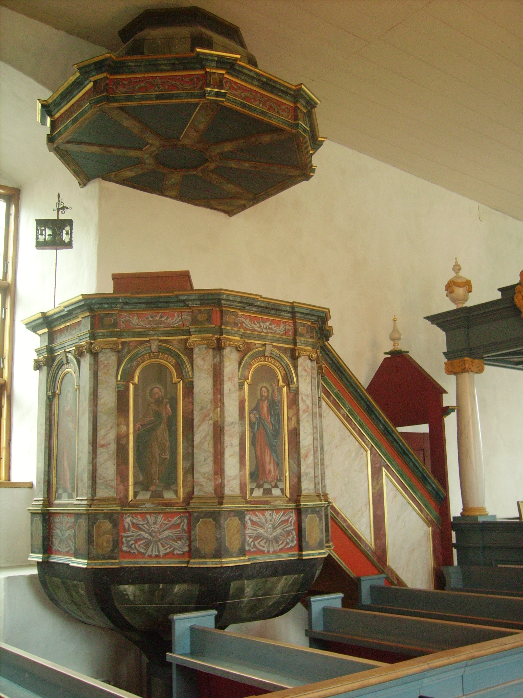 The pulpit at Turunlinna (Turku castle).Pulpit, Turunlinna